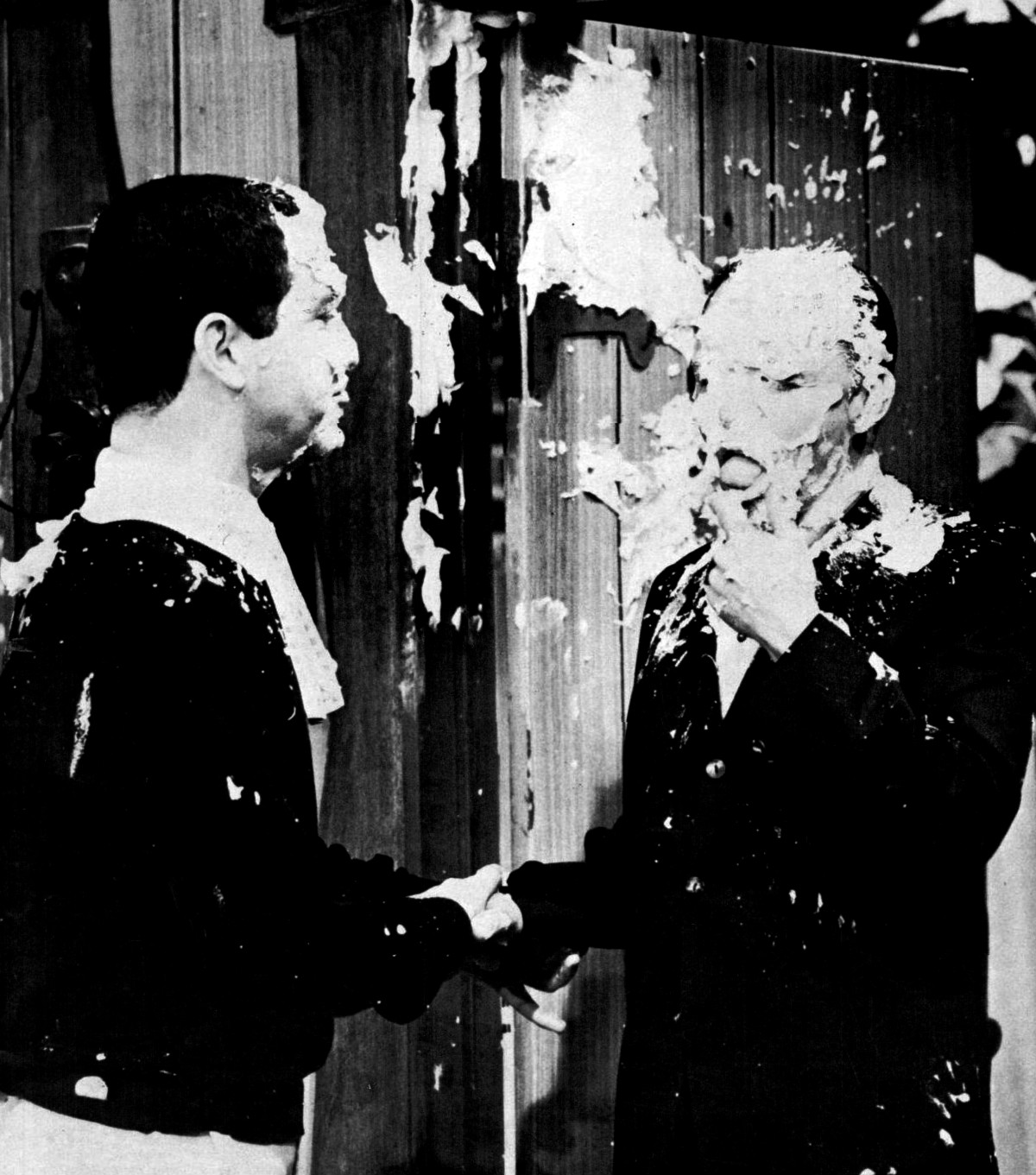 Photo of Frank Sinatra and Soupy Sales on Sales' television program. Sinatra was the guest who knocked on the door. Both Sinatra and Sales got pies in the face. The photo is part of a 1965 special Frank Sinatra section of Billboard. The full page ad was a birthday greeting to Sinatra from Stan Greeson Associates.